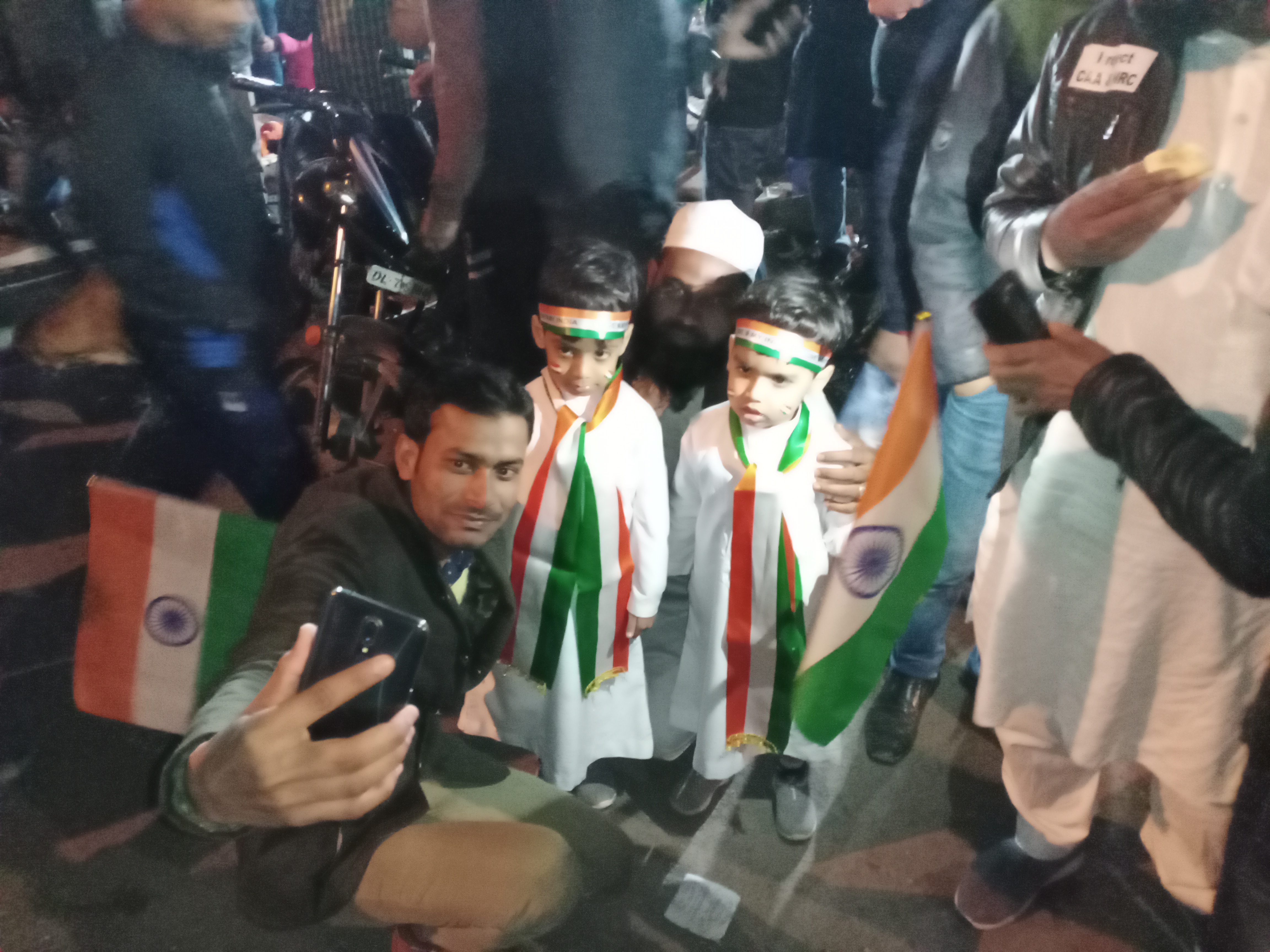 Dressed up children at the Shaheen Bagh protests and a random person taking a selfie while others also take photographs